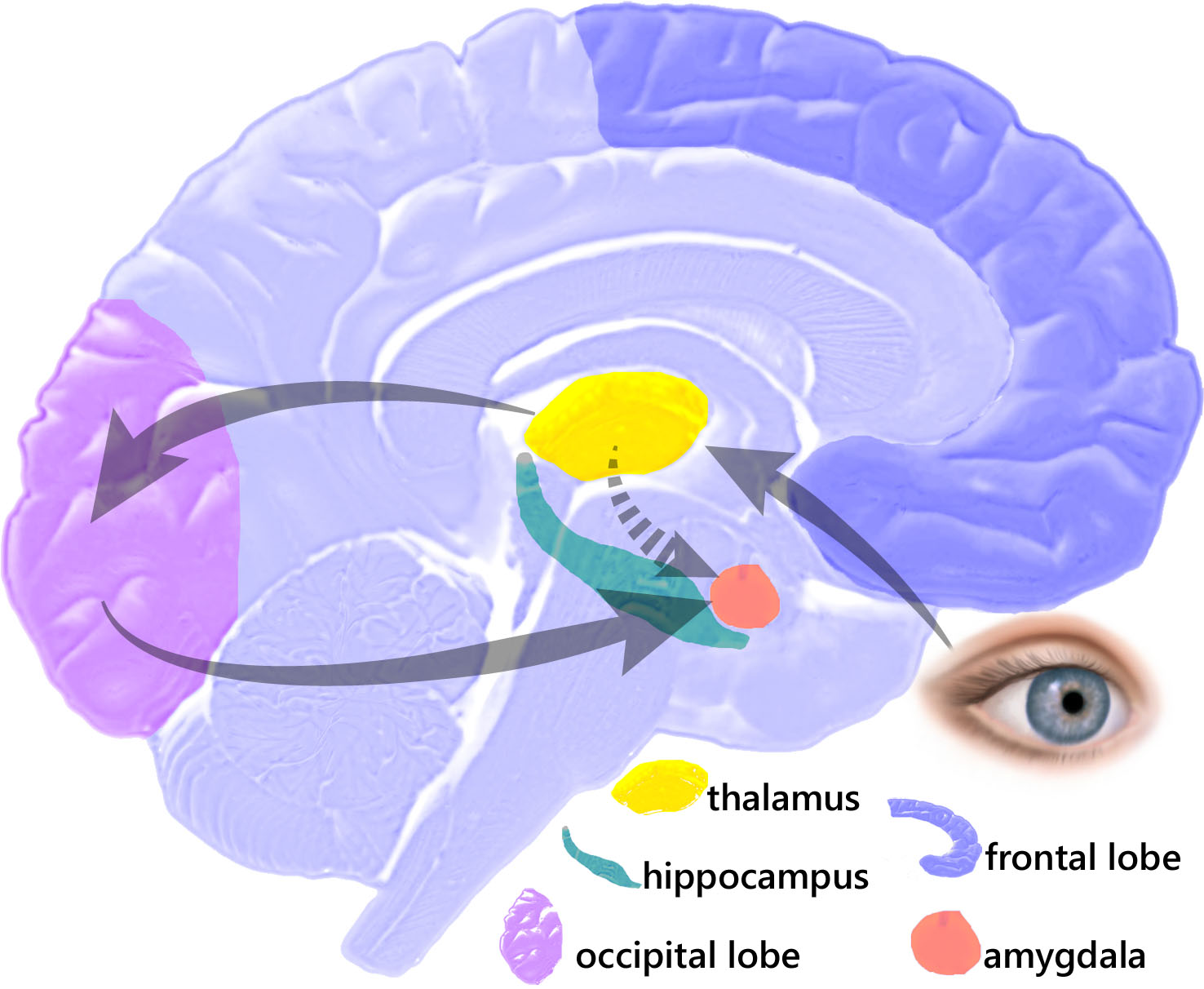 Human brain parts during a fear amygdala hijack from optical stimulus.